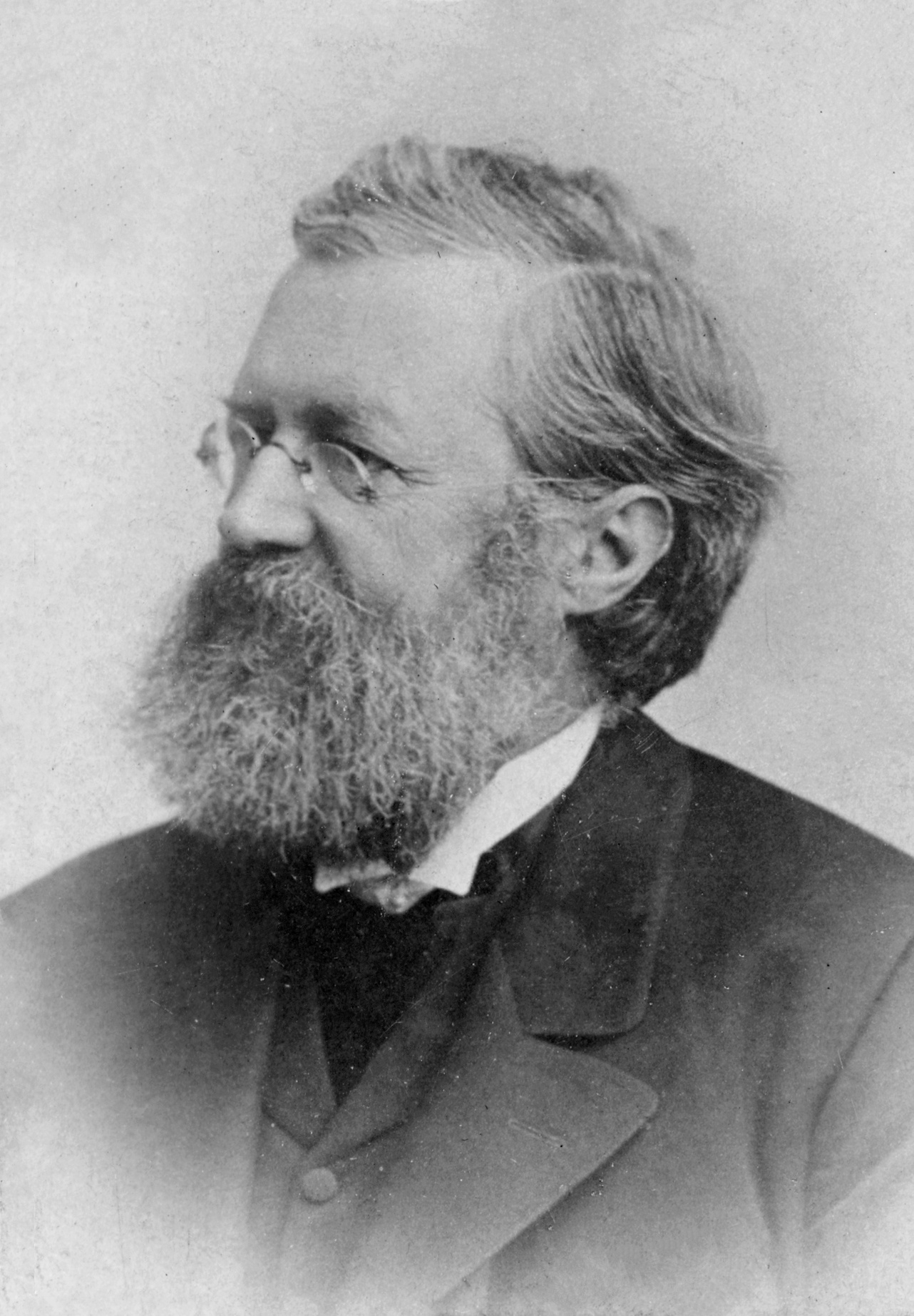 (Portrait of Theodor Helm 1843-1920, famous Viena music critic Scanned by me from an original family photo in my possession )